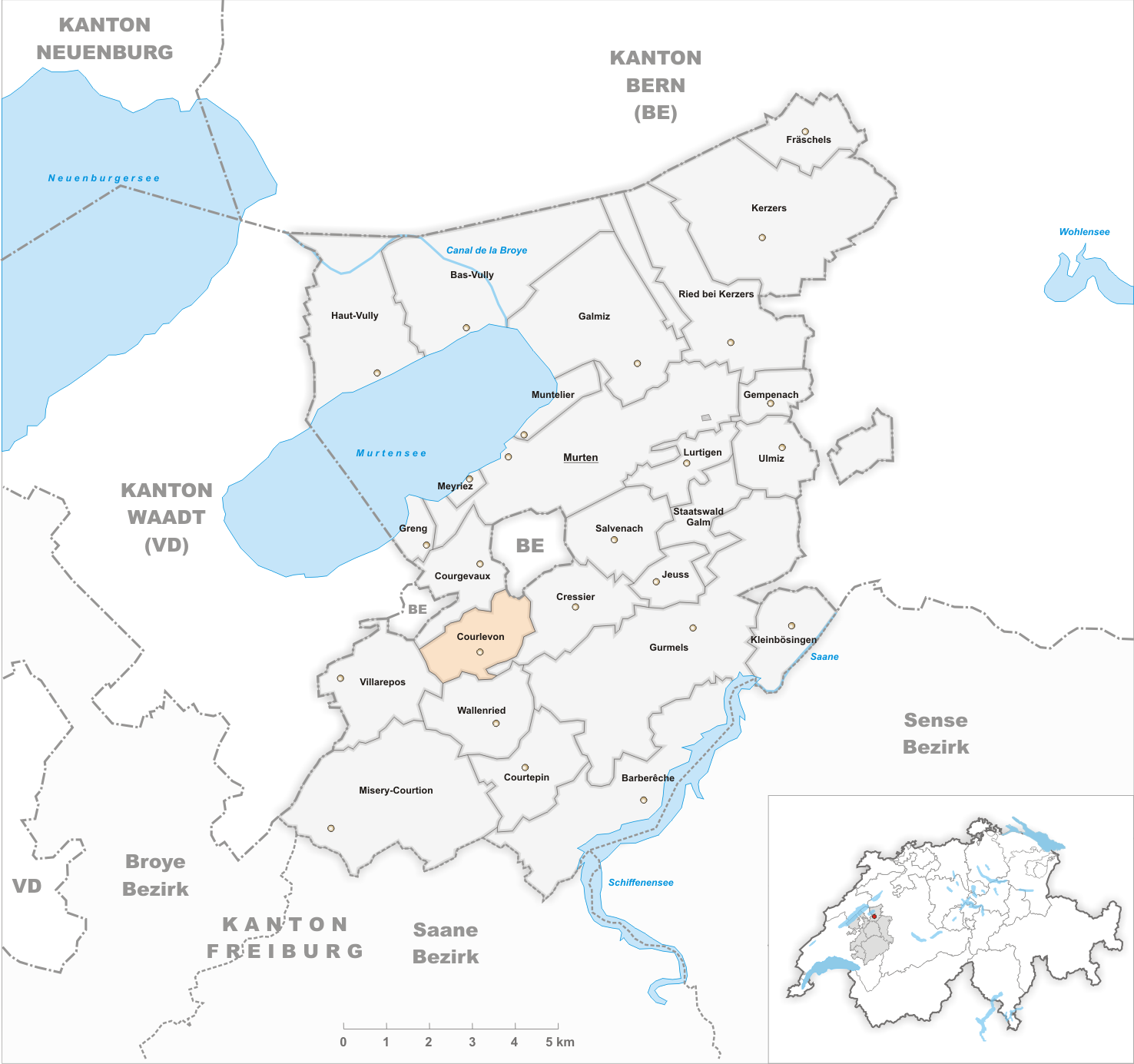 Municipality Courlevon